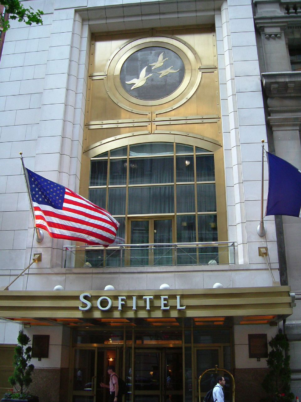 Sofitel New York